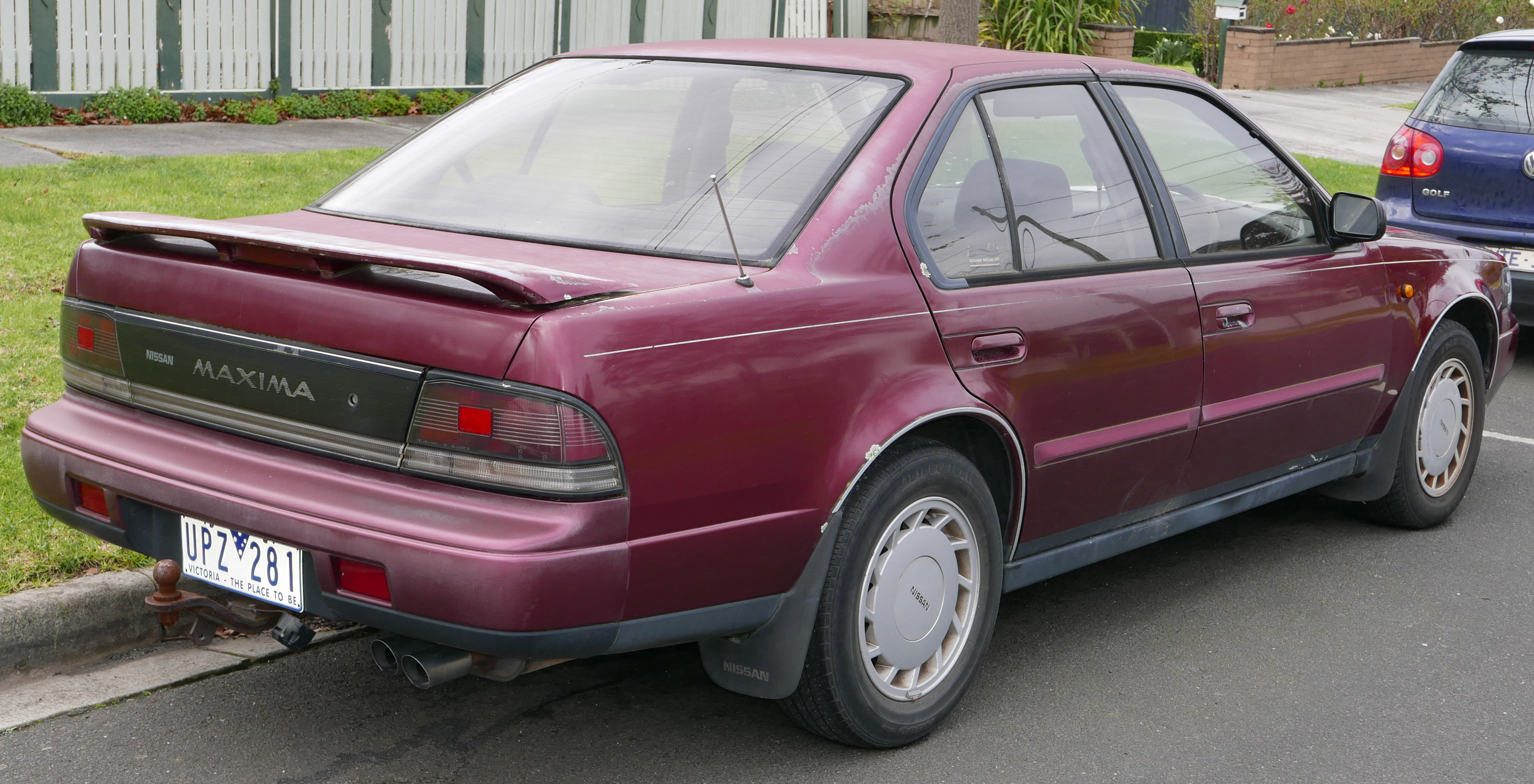 1990 Nissan Maxima (J30) Ti sedan. Photographed in Box Hill North, Victoria, Australia. Vehicle registration enquiry results Jurisdiction Victoria Registration UPZ281 Chassis code JN100HJ30A0000288 Engine code VG30679090W Compliance date 1990-04 Year of manufacture 1990